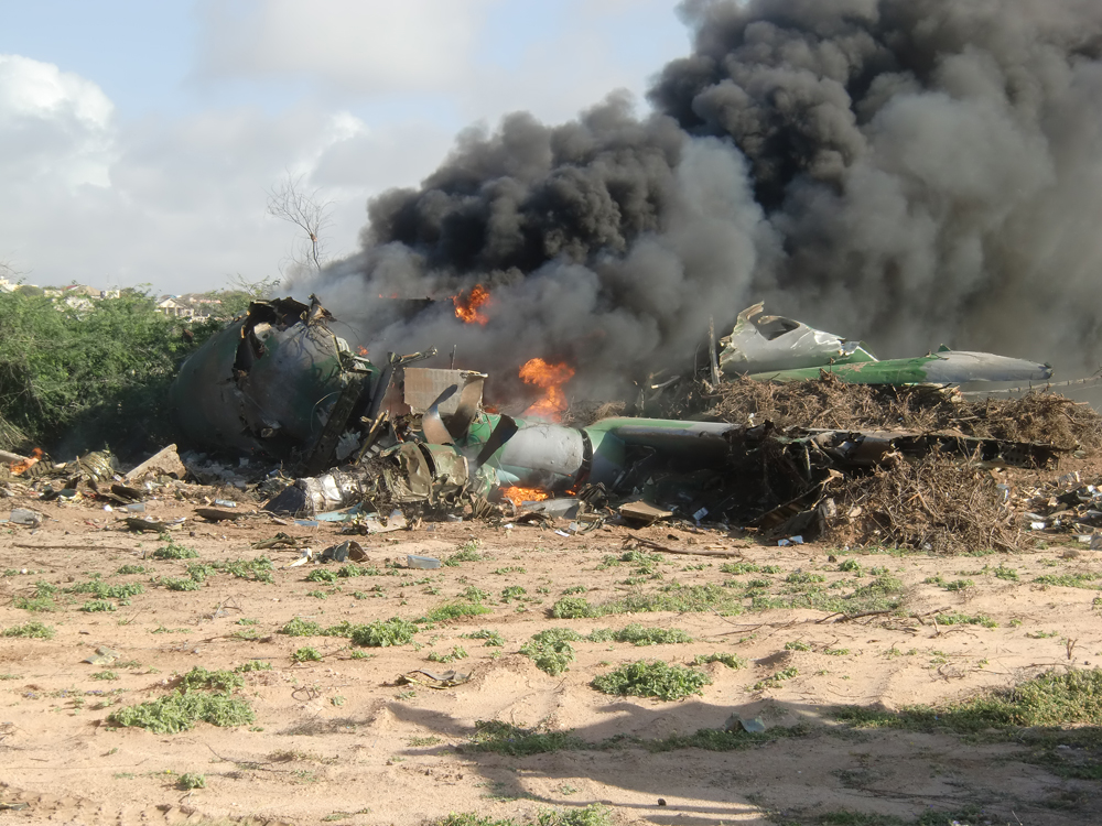 Photograph of EAF An-12 in Mogadishu approx. 2 mins after crash